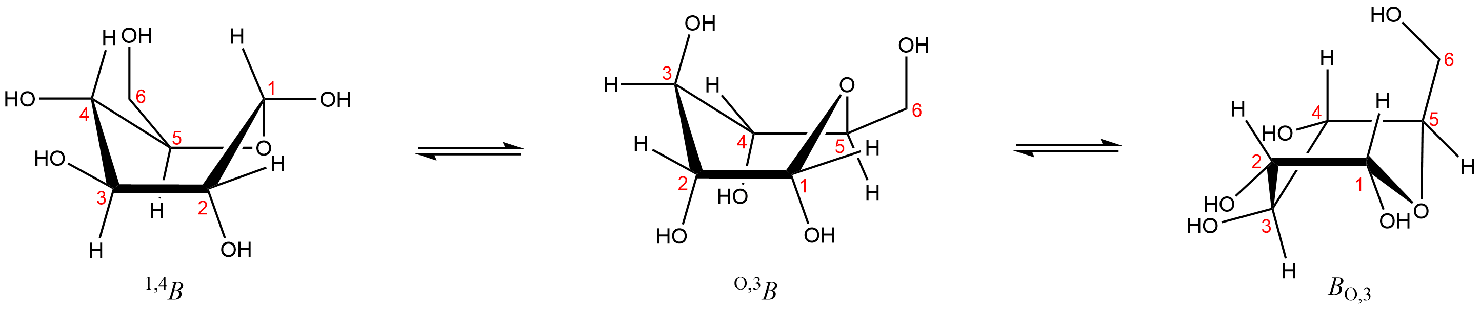 Possible boat conformations for D-glucose.